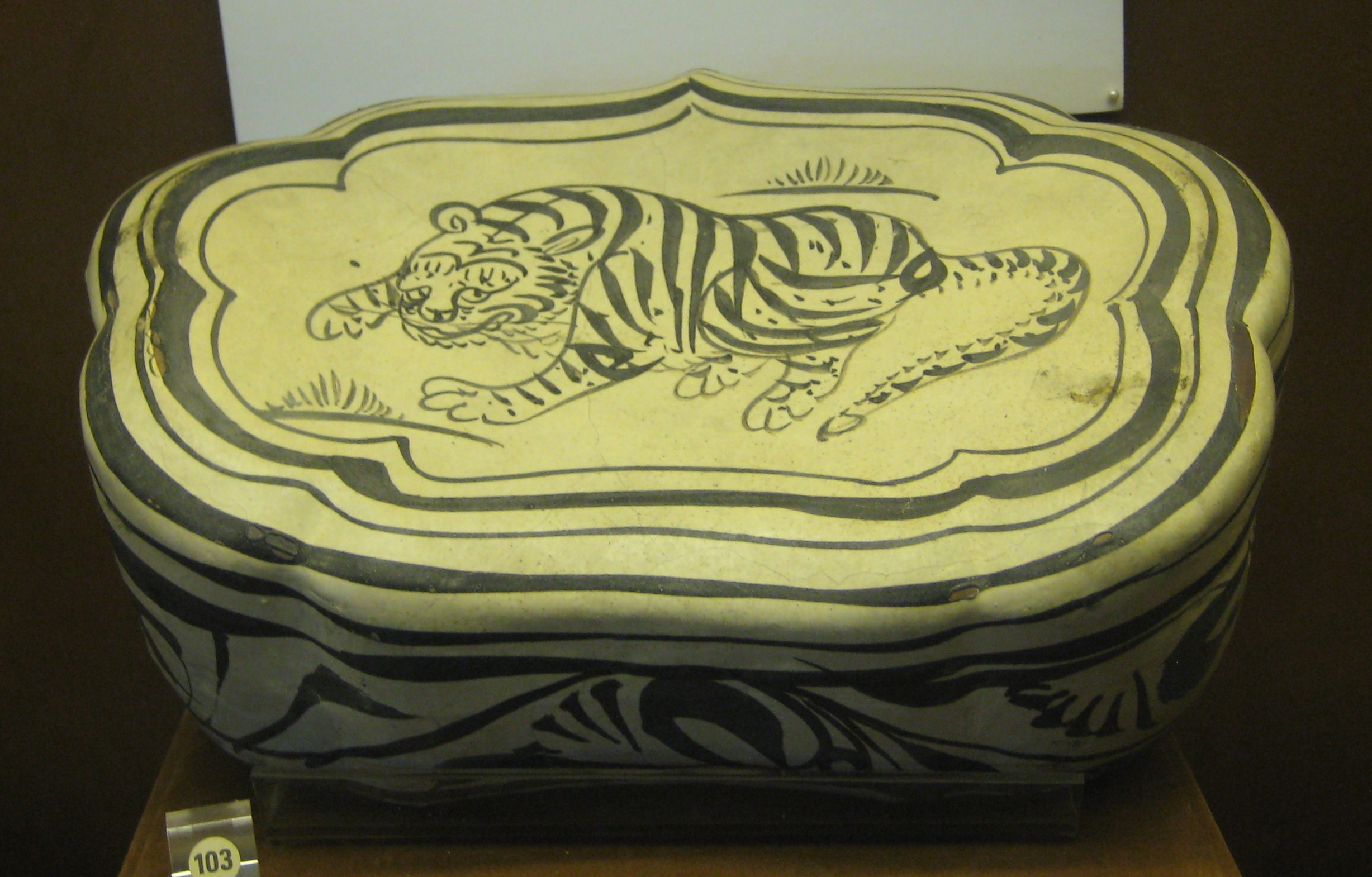 Cloud-shaped pillow with iron-brown tiger design on white slip coating. Jin Dynasty (1115-1234). Cizhou ware (磁州窯), Hebei, China. Originally from the collection of Mr Yeung Wing Tak 楊永德; now held on permanent exhibition at the Museum of the Mausoleum of the Nanyue King, Guangzhou, China.